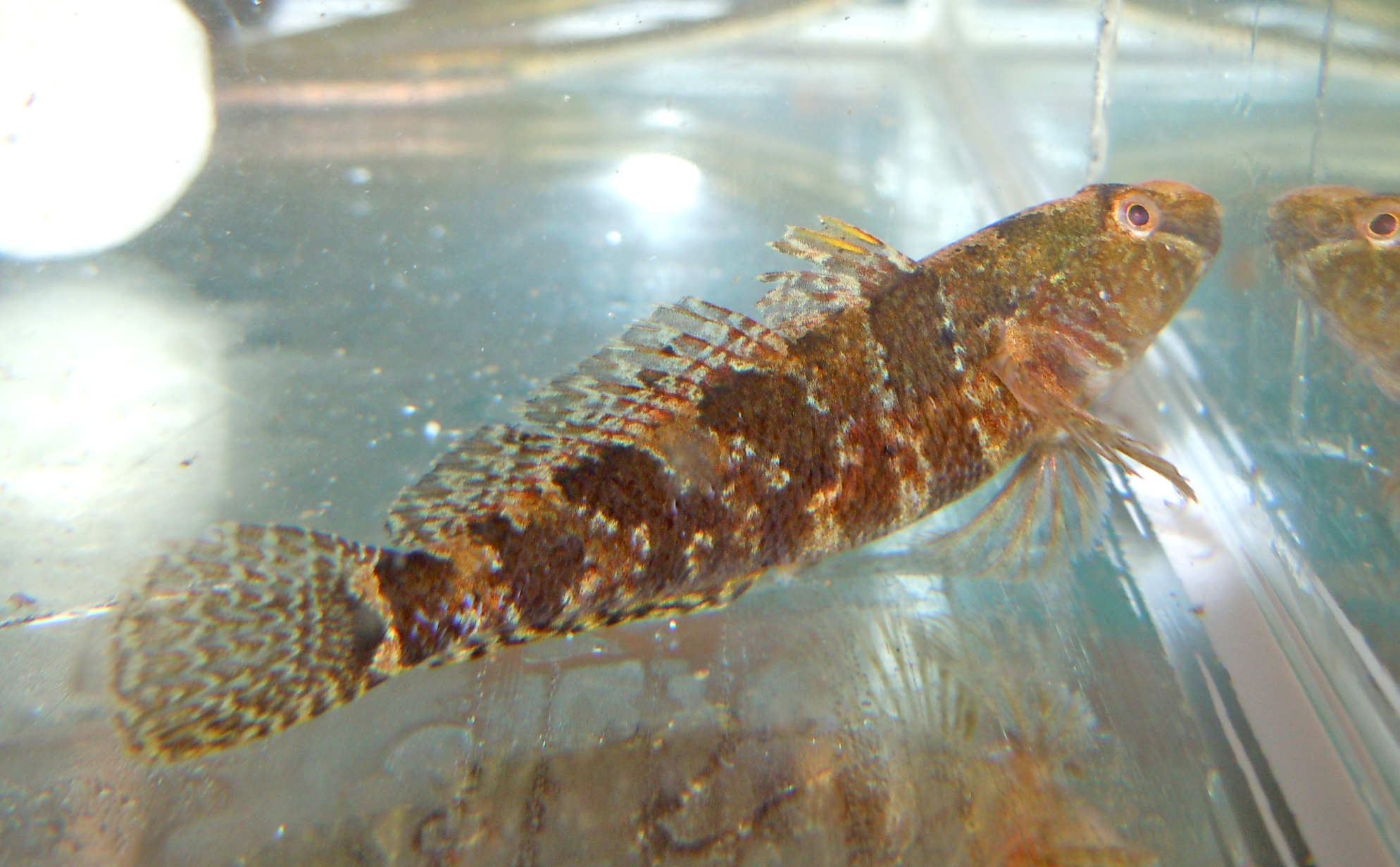 Marine tubenose goby (Proterorhinus marmoratus) from the Gulf of Odessa, Ukraine